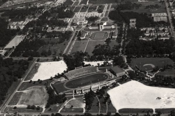 Aerial view of the University of Houston, circa 1950